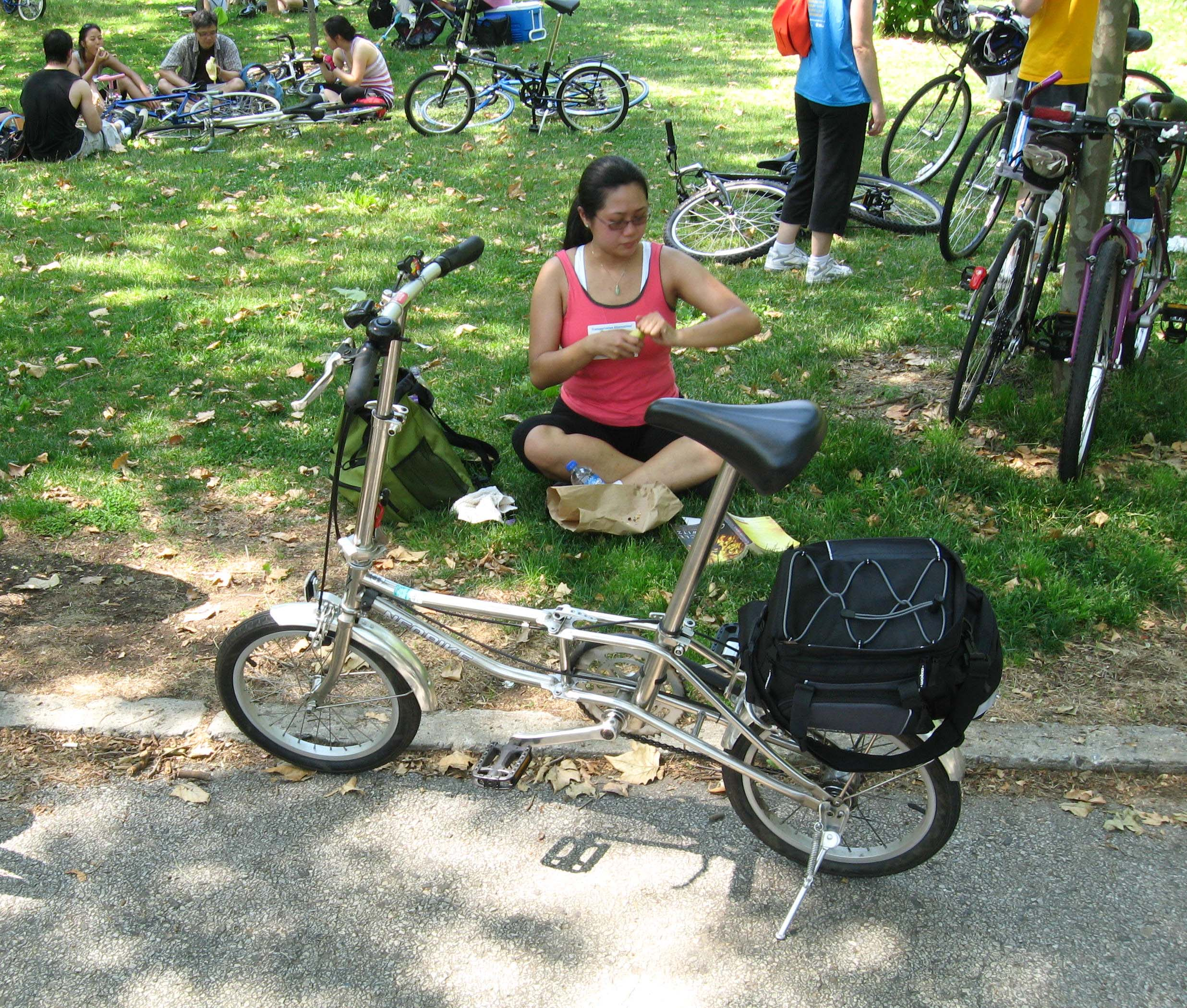 Looking southwest on a sunny June 8 2008 morning in Queensbridge Park at a Neobike.